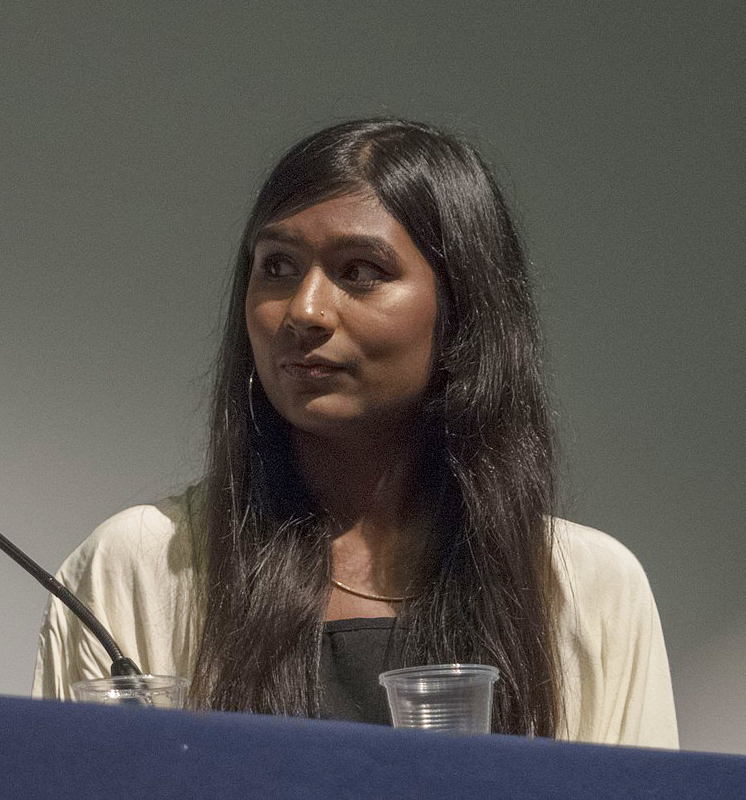 Ash Sarkar talking on a panel at The World Transformed 2017